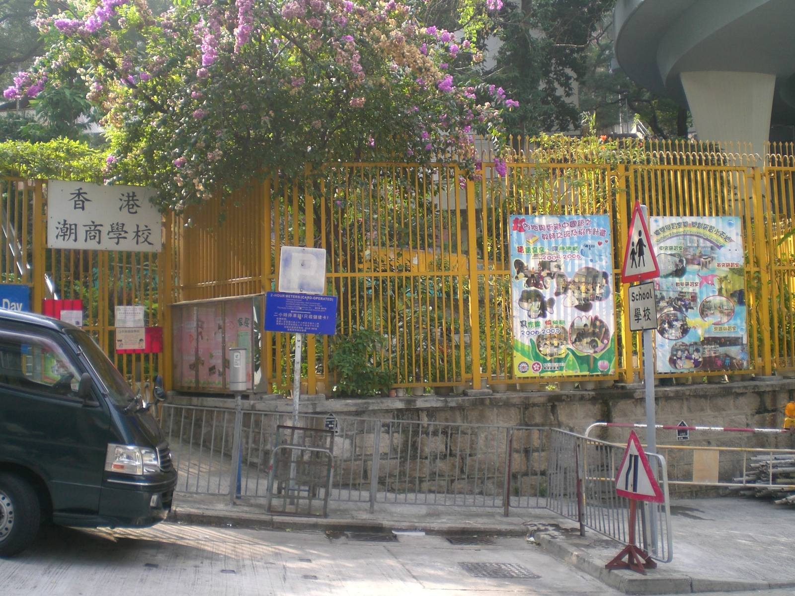 香港島山道香港潮商學校